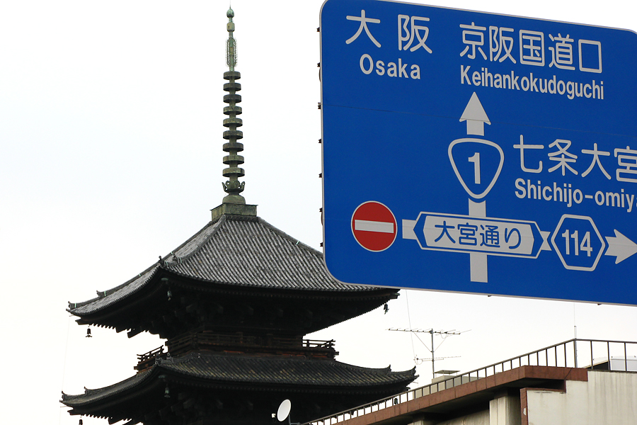 This photo shows a road sign for Route 1 near Tō-ji in Kyoto, Japan. The pagoda is part of Tō-ji. I took the photo.